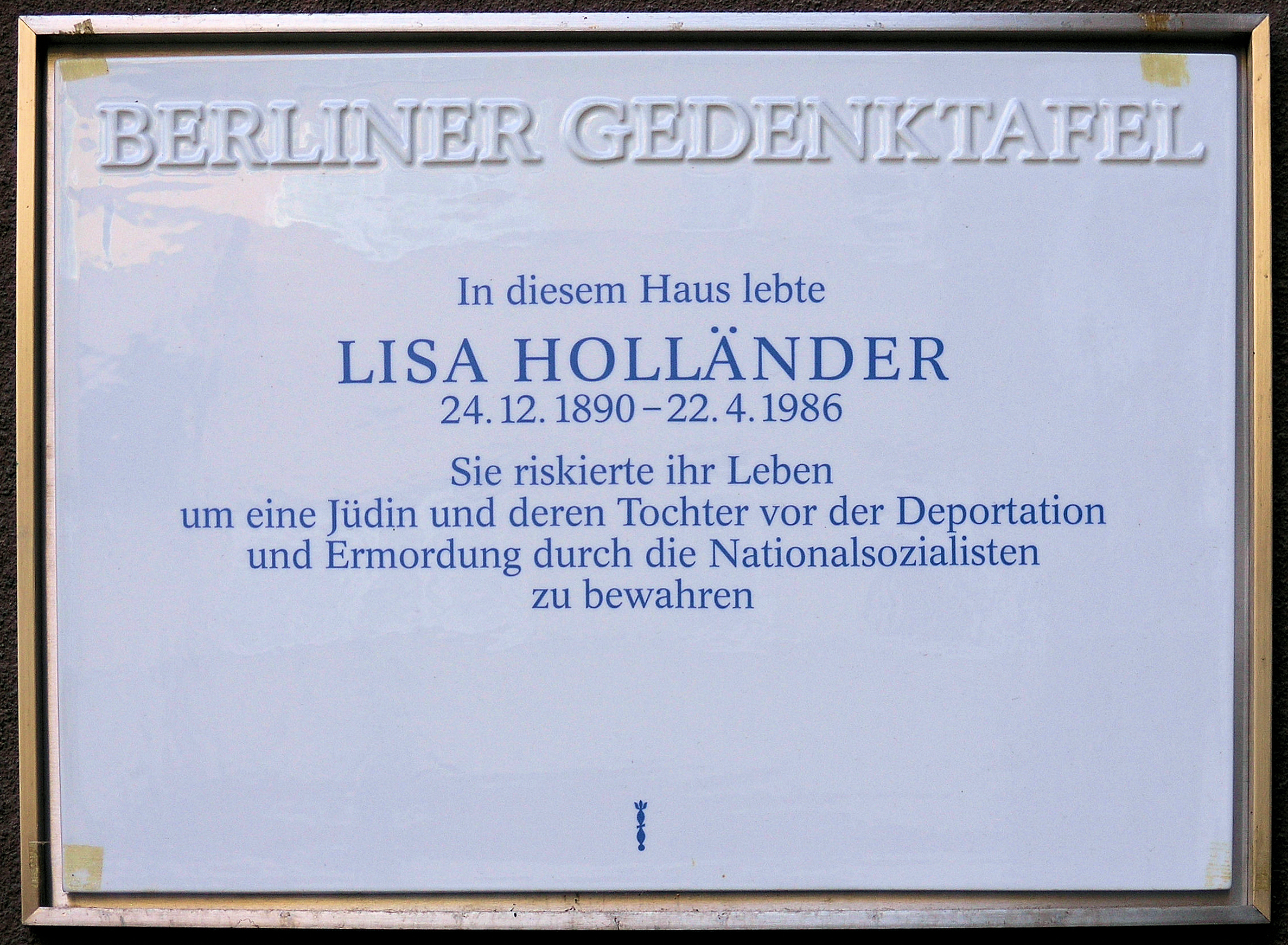 Berlin memorial plaque, Lisa Holländer, Sächsische Straße 26, Berlin-Wilmersdorf, Germany Koordinate:52°29′34.7″N 13°19′2.2″E / 52.492972°N 13.317278°E